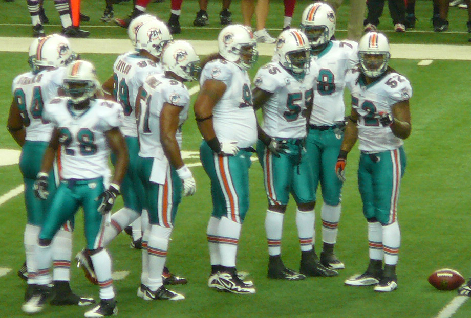 If used somewhere other than Wikipedia, Nelson, by name.